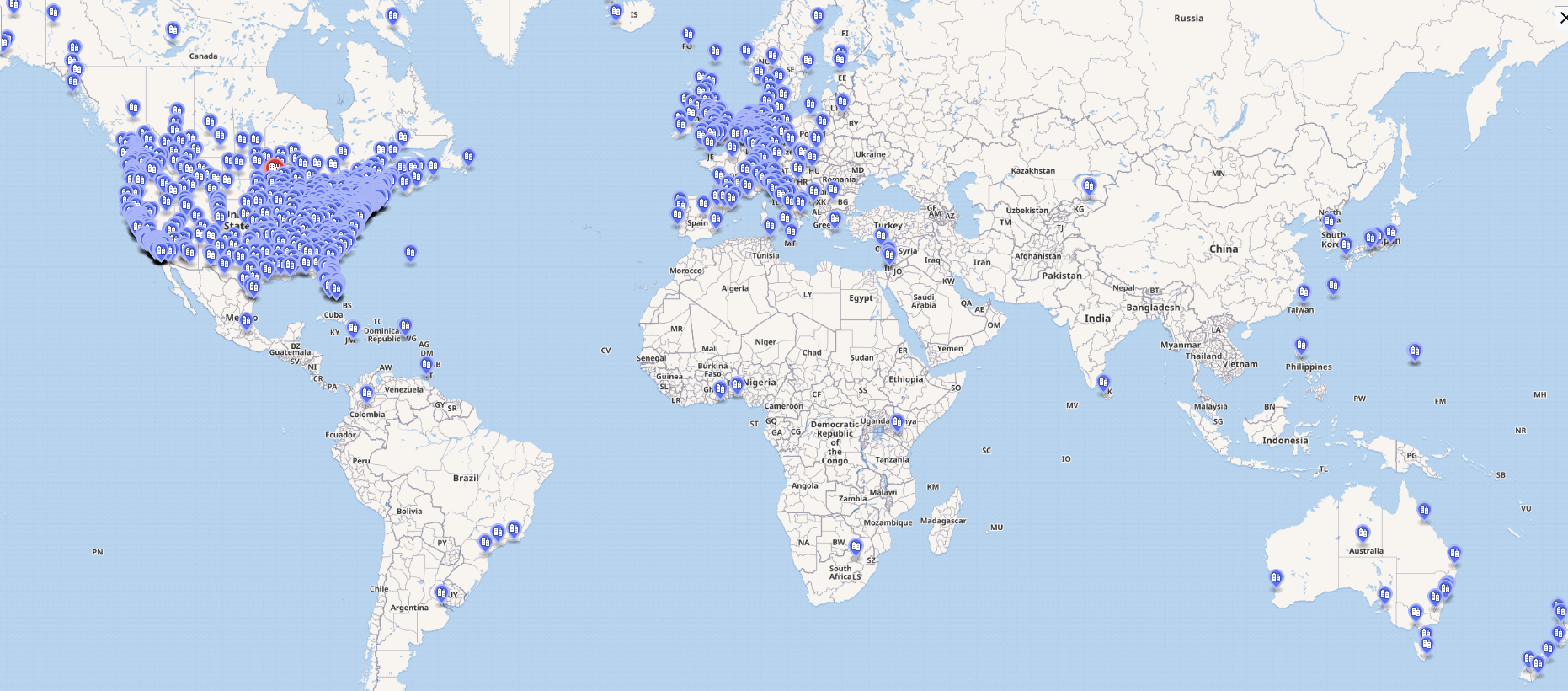 Screenshot from Last updated 7/5/2020 This map may be incomplete, and may contain errors. Don't rely solely on it for navigation.